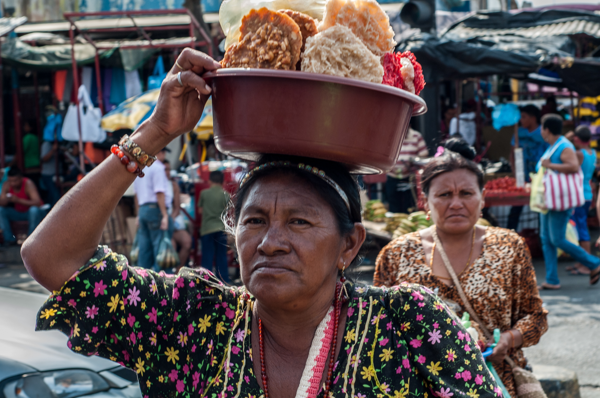 Wayuu woman selling cocadas (coconut candies)